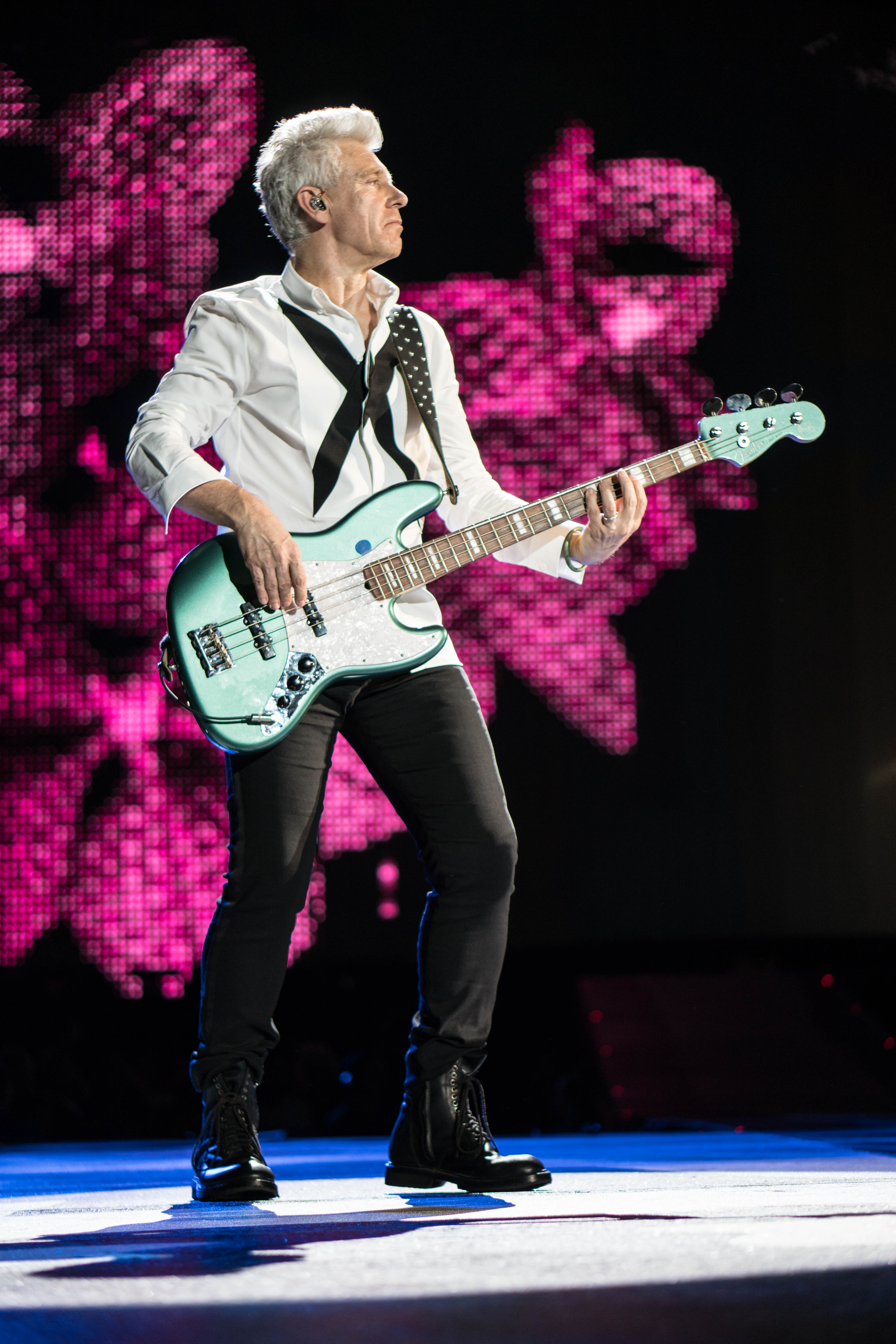 Taken on June 14, 2017 at the U2 concert in the Raymond James Stadium in Tampa, FL.